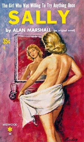 Cover of "Sally" by Alan Marshall. Illustration by Paul Rader.